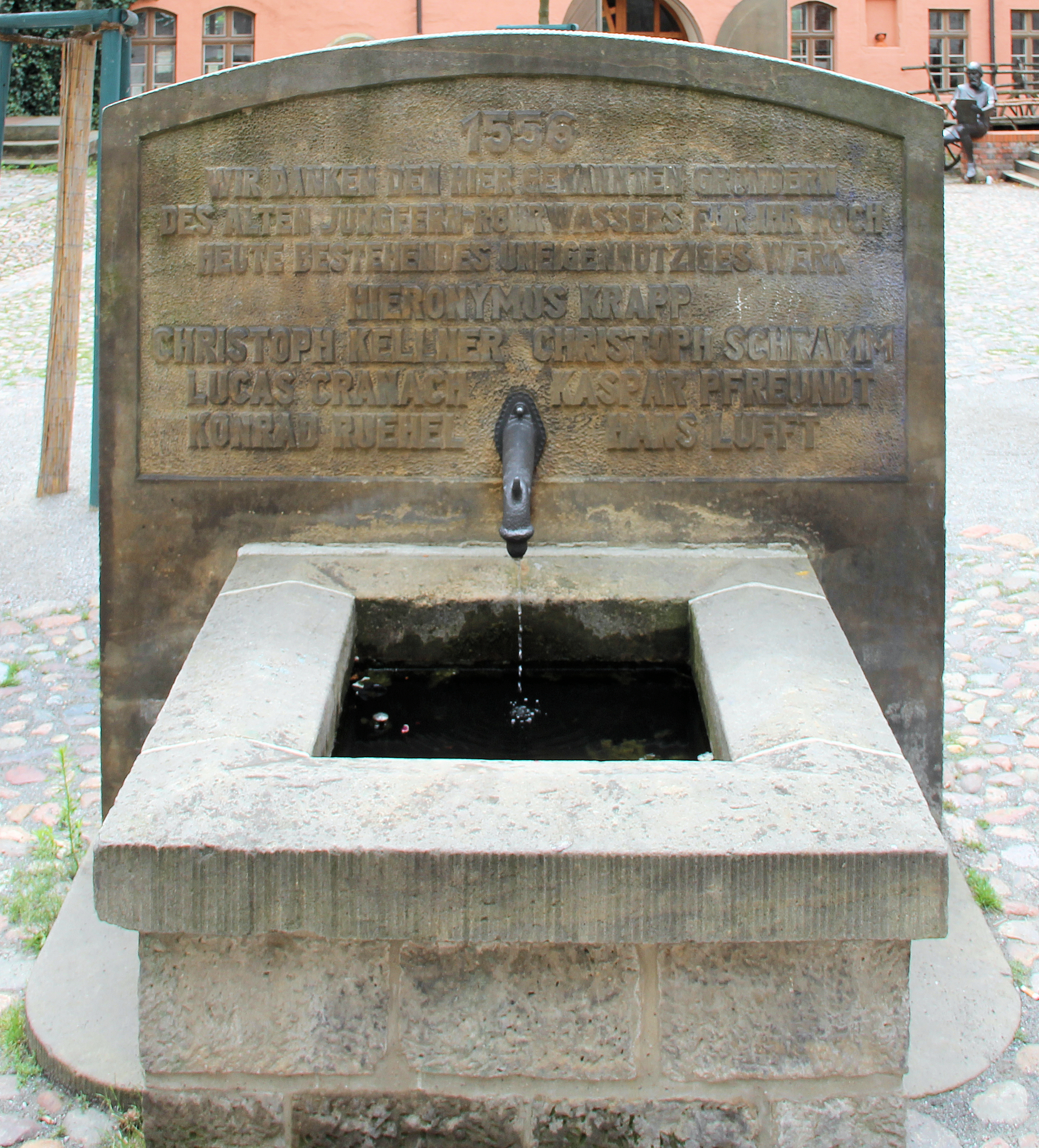 Memorial plaque, Röhrwasser, Markt 4, Lutherstadt Wittenberg, Germany Koordinate:51°51′58″N 12°38′37″E / 51.86611°N 12.64361°E